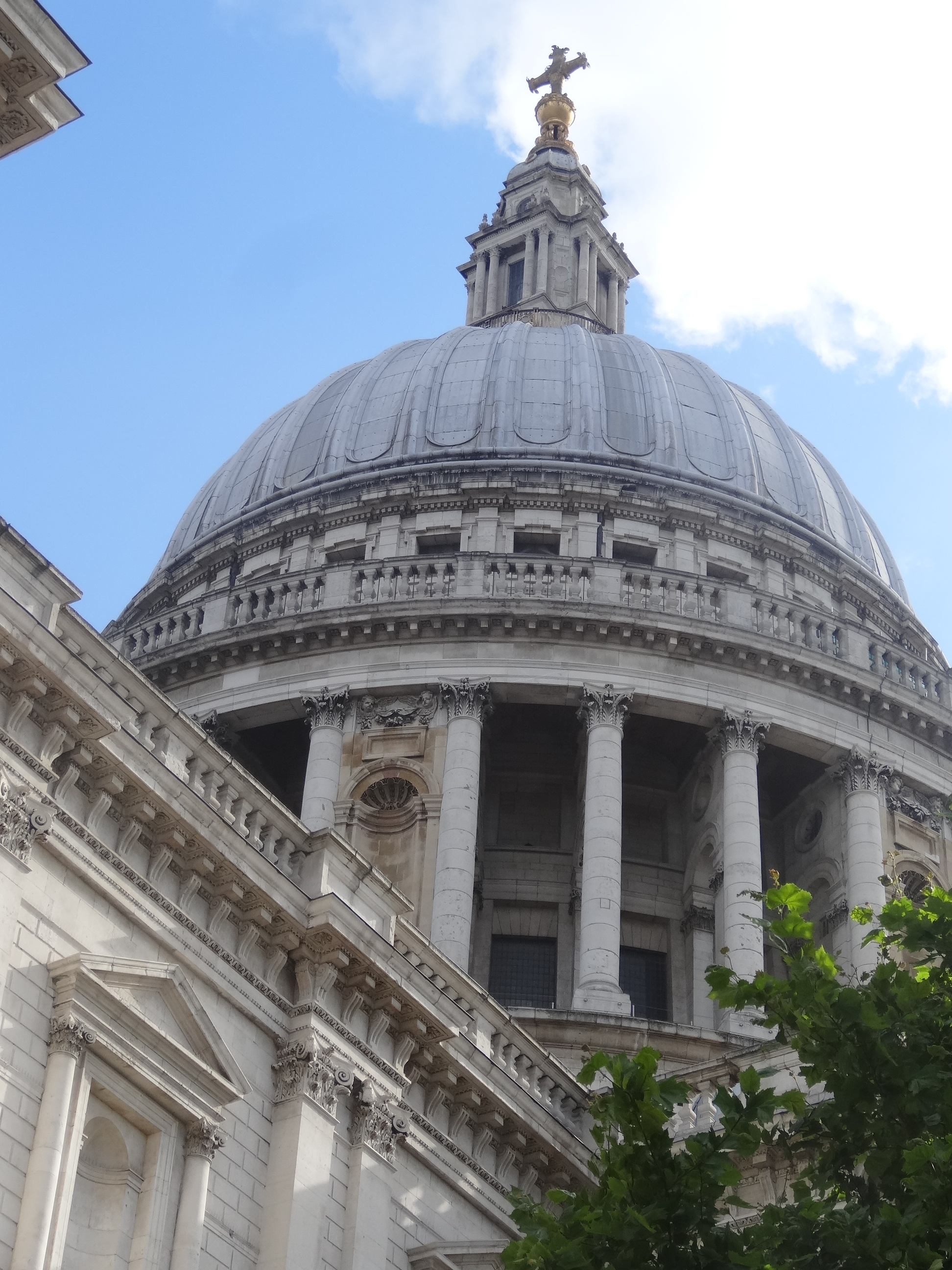 Exterior of St. Paul's Cathedral